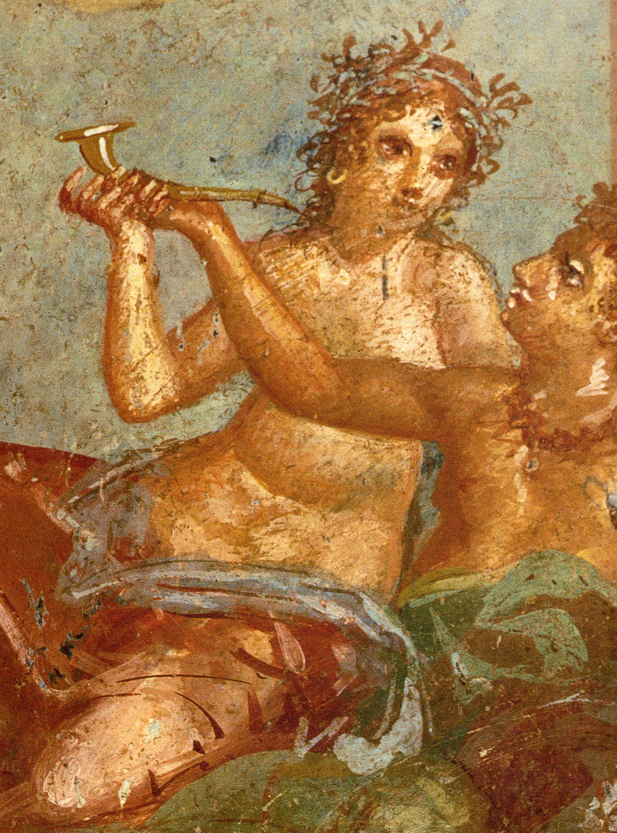 Roman fresco with banquet scene (detail) from the Casa dei Casti Amanti (IX 12, 6-8) in Pompeii.